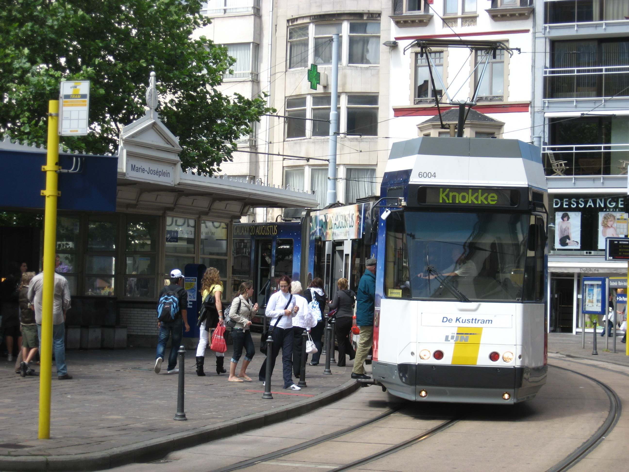 Coastal tram in Ostend city bij the Marie-Joséplein